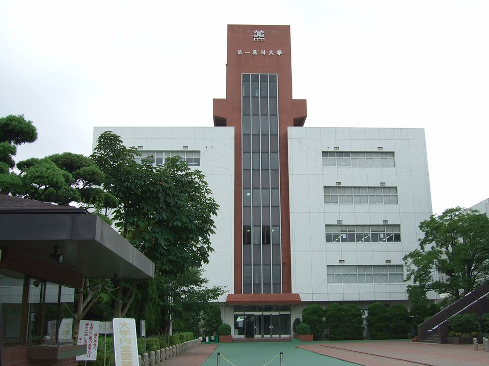 Daiichi University, College of Pharmaceutical Sciences